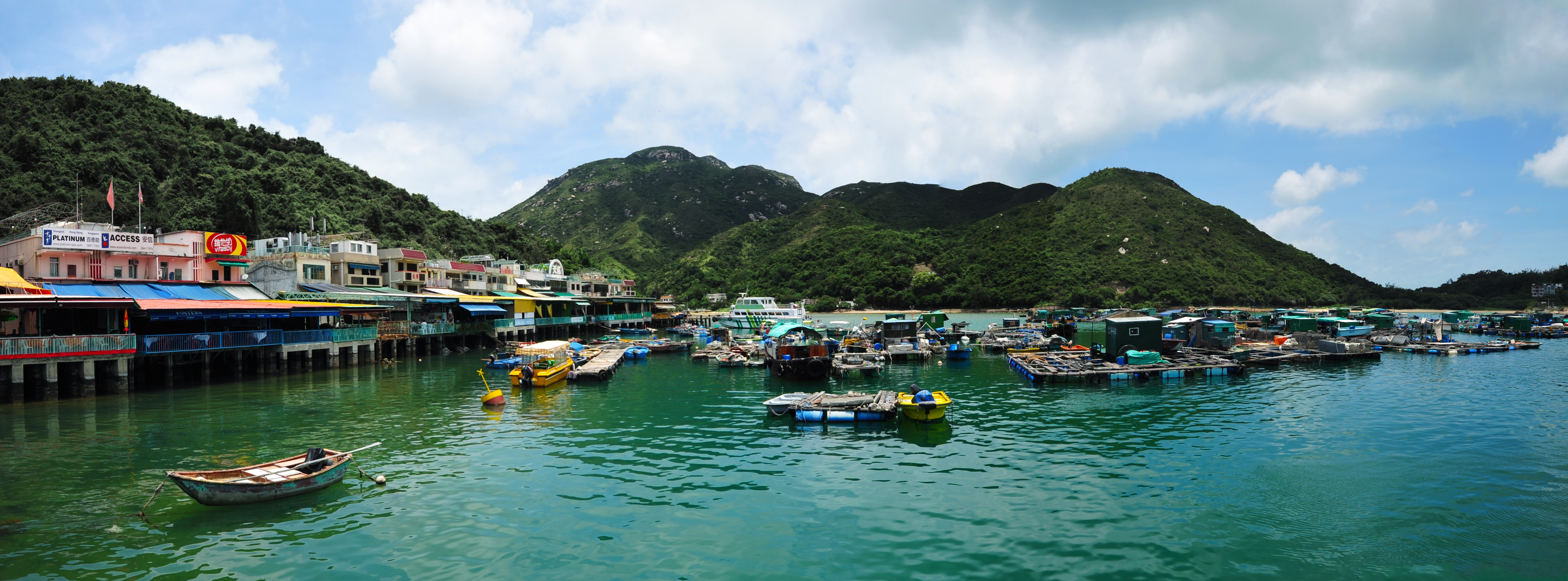 lamma island panorama fishing village seafood restaurant hong kong chow yun fat sok kwu wan